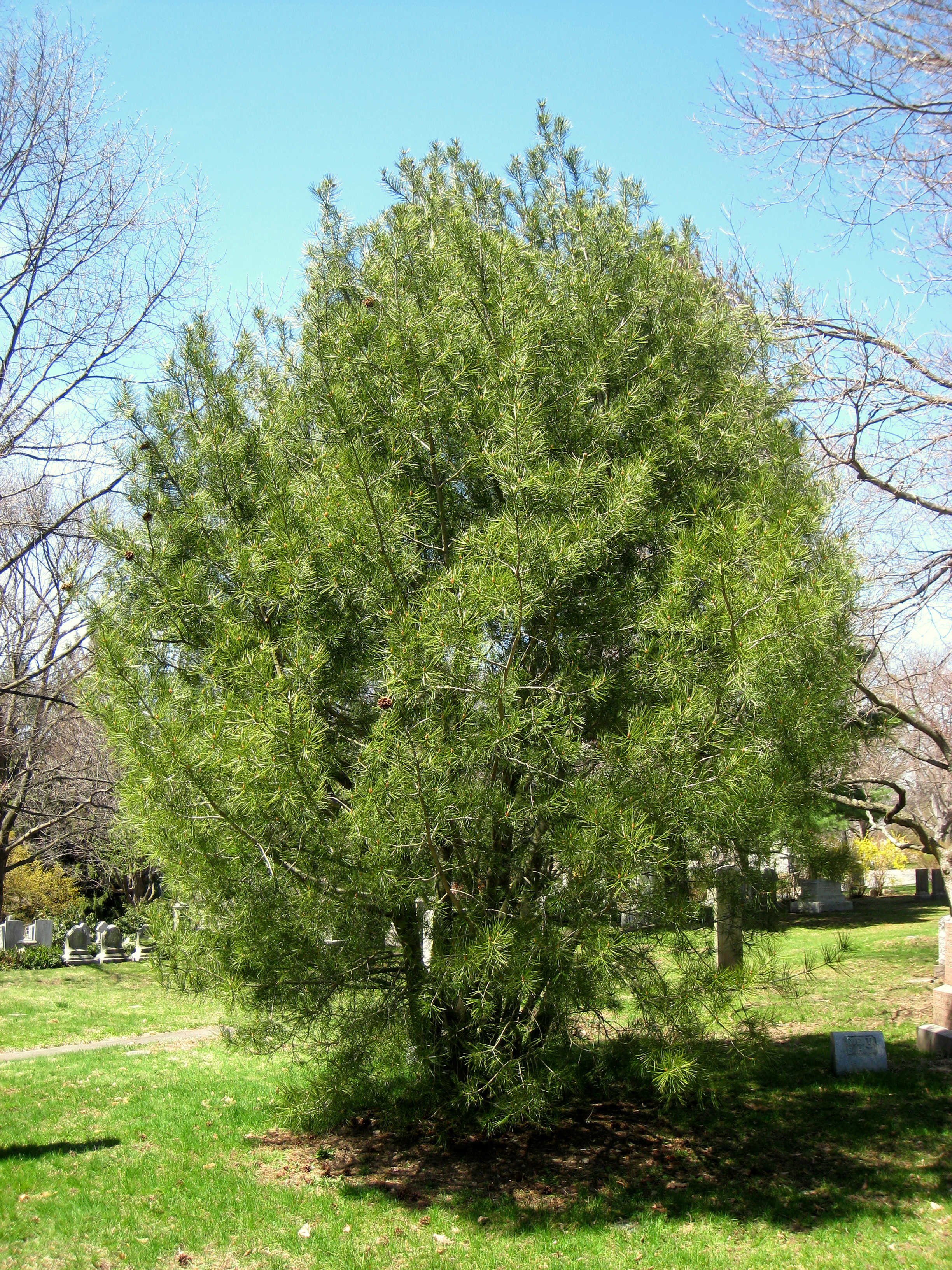 Pinus bungeana, Mount Auburn Cemetery, Cambridge, Massachusetts, USA.